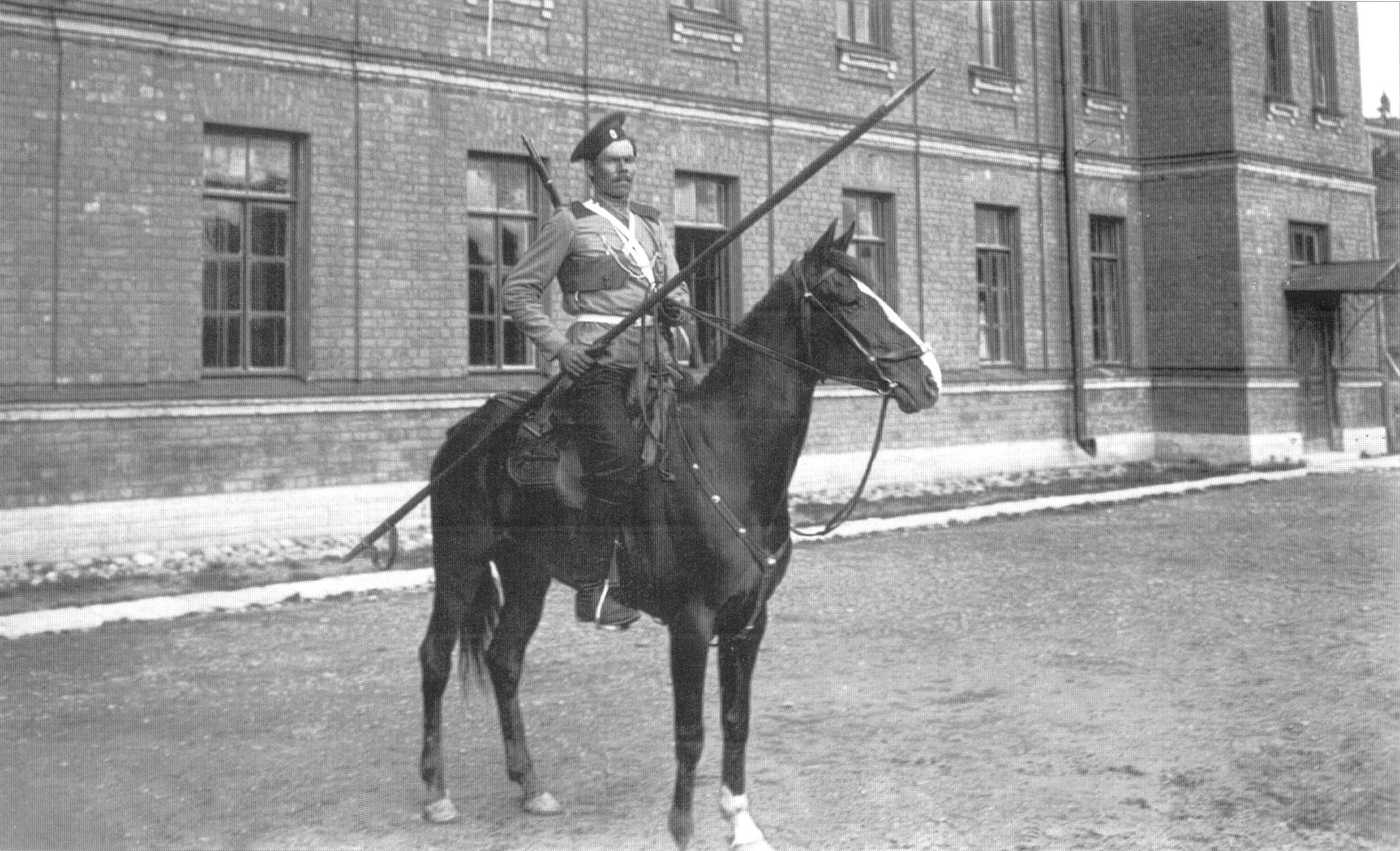 Cossack of Russian Life Guards Cossacks Regiment.